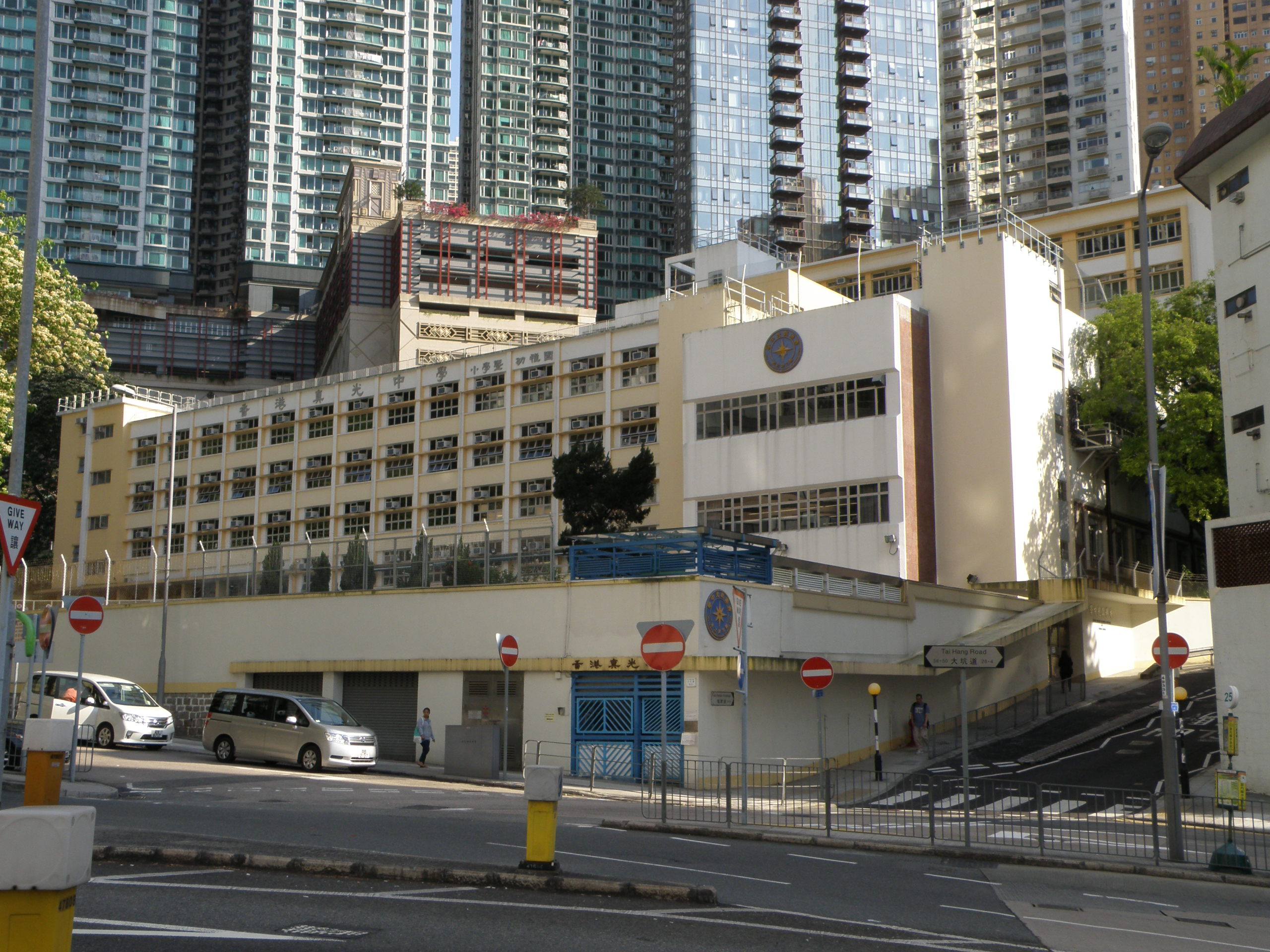 True Light Middle School in Tai Hang, Hong Kong